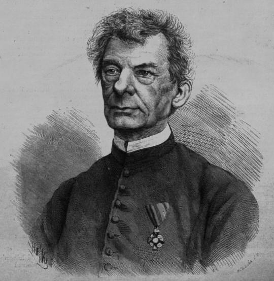 Portrait of Mór Czinár